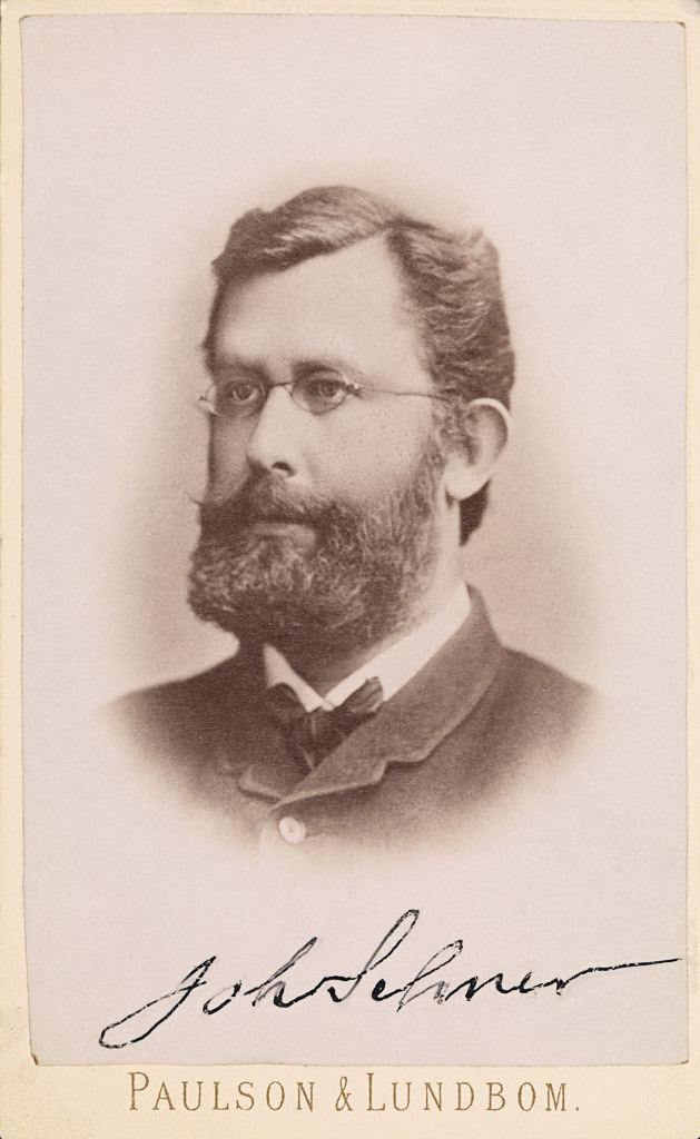 Tittel / Title: Portrett av Johan Selmer, ca 1886 Motiv / Motif: Visittkort. Dato / Date: ca 1886 Fotograf / Photographer: Paulson & Lundbom Sted / Place: Oslo Eier / Owner Institution: Nasjonalbiblioteket / National Library of Norway Lenke / Link: Bildesignatur / Image Number: blds_02282